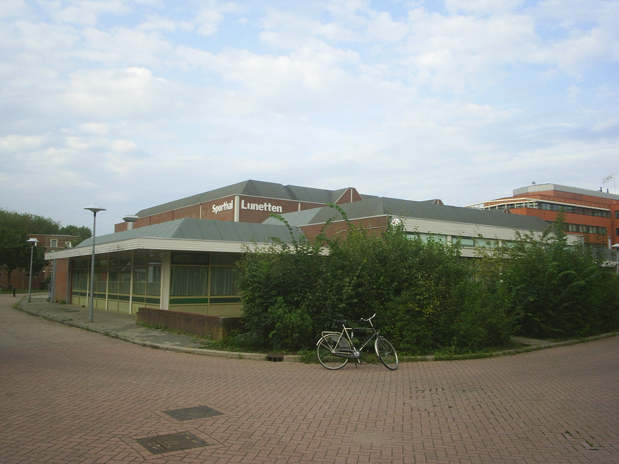 Sporthal Lunetten